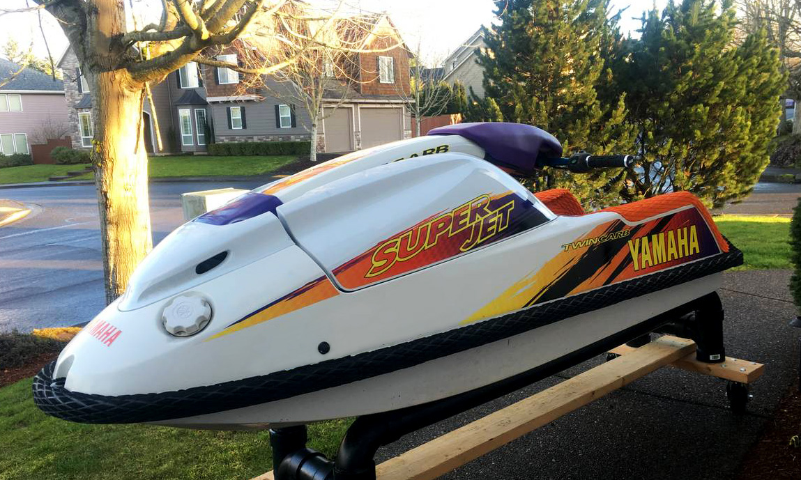 Side view of a 1997 Yamaha SuperJet personal watercraft